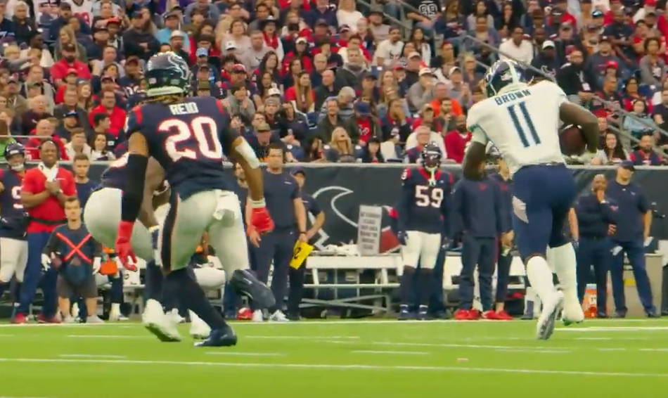 AJ Brown and Justin Reid. Image from video Analyzing A.J. Brown's Big Plays vs. Texans | Beneath the Surface, ~ 01:37.